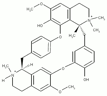 Chemical structure of tubocurarine. This image was created with JChemPaint by User:MattKingston and refined with GIMP. Image is to be considered public domain. If there is no article associated with this substance, there should be one soon.